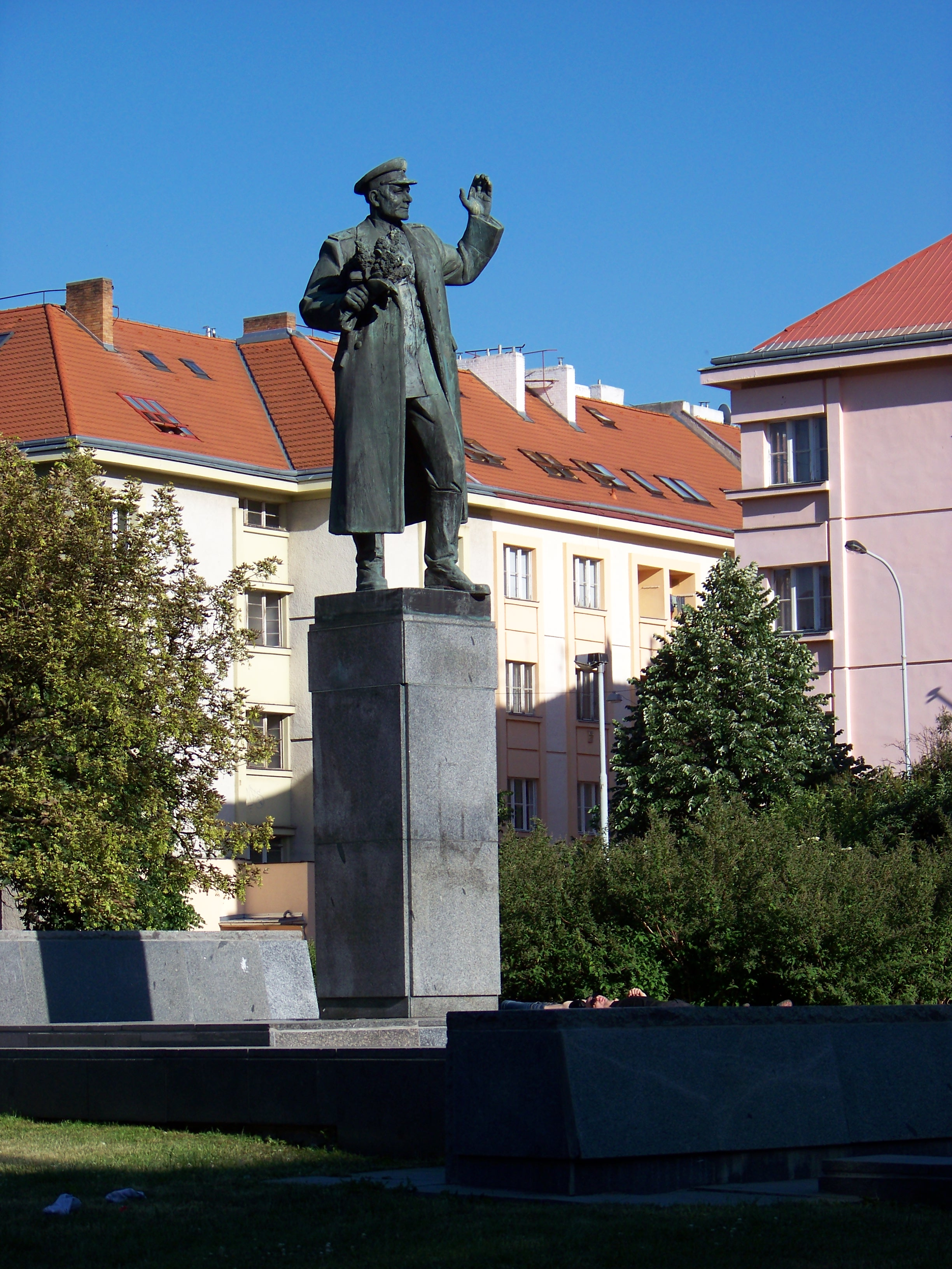 Prague-Bubeneč, the Czech Republic. Interbrigade Square, a monument to Ivan Stepanovich Konev.